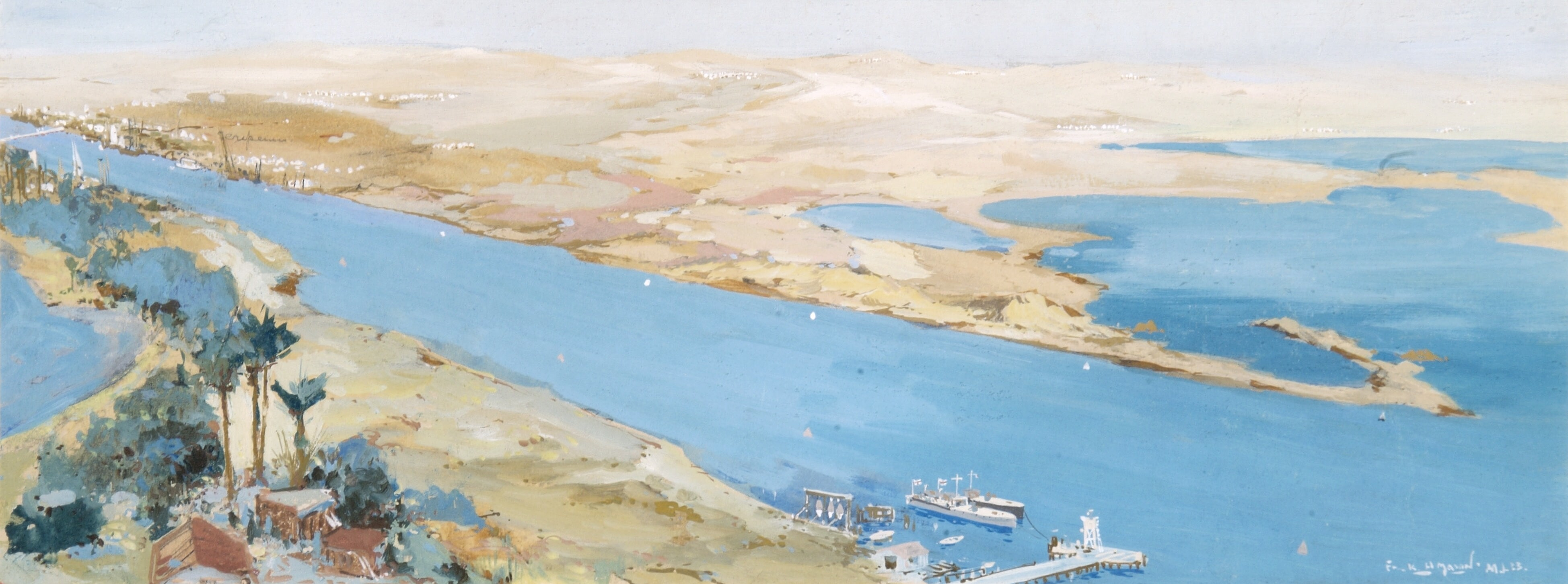 Suez Canal. 28th April 1916 - from the crow's nest of Deversoir Signal Station. Serapeum, on the extreme left, was the Base camp. image: A view from a high position over part of the Suez Canal and the surrounding desert landscape. In the centre foreground two small vessels are moored near the canalside with a jetty nearby. Trees and a few buildings are in the left foreground and a base camp is just about visible on the shoreline in the left background.